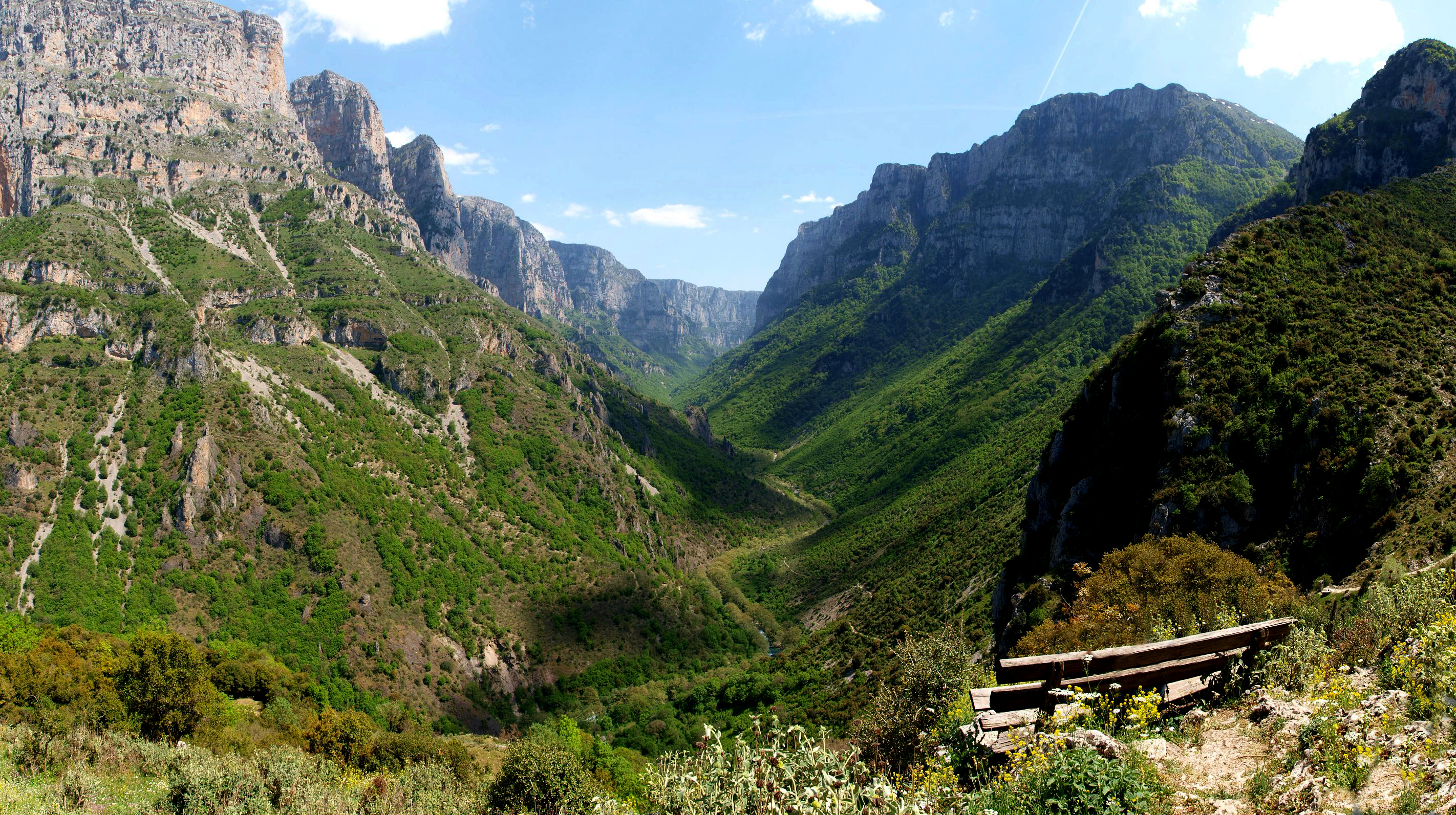 This is a photography of Natura 2000 protected area with ID GR2130001